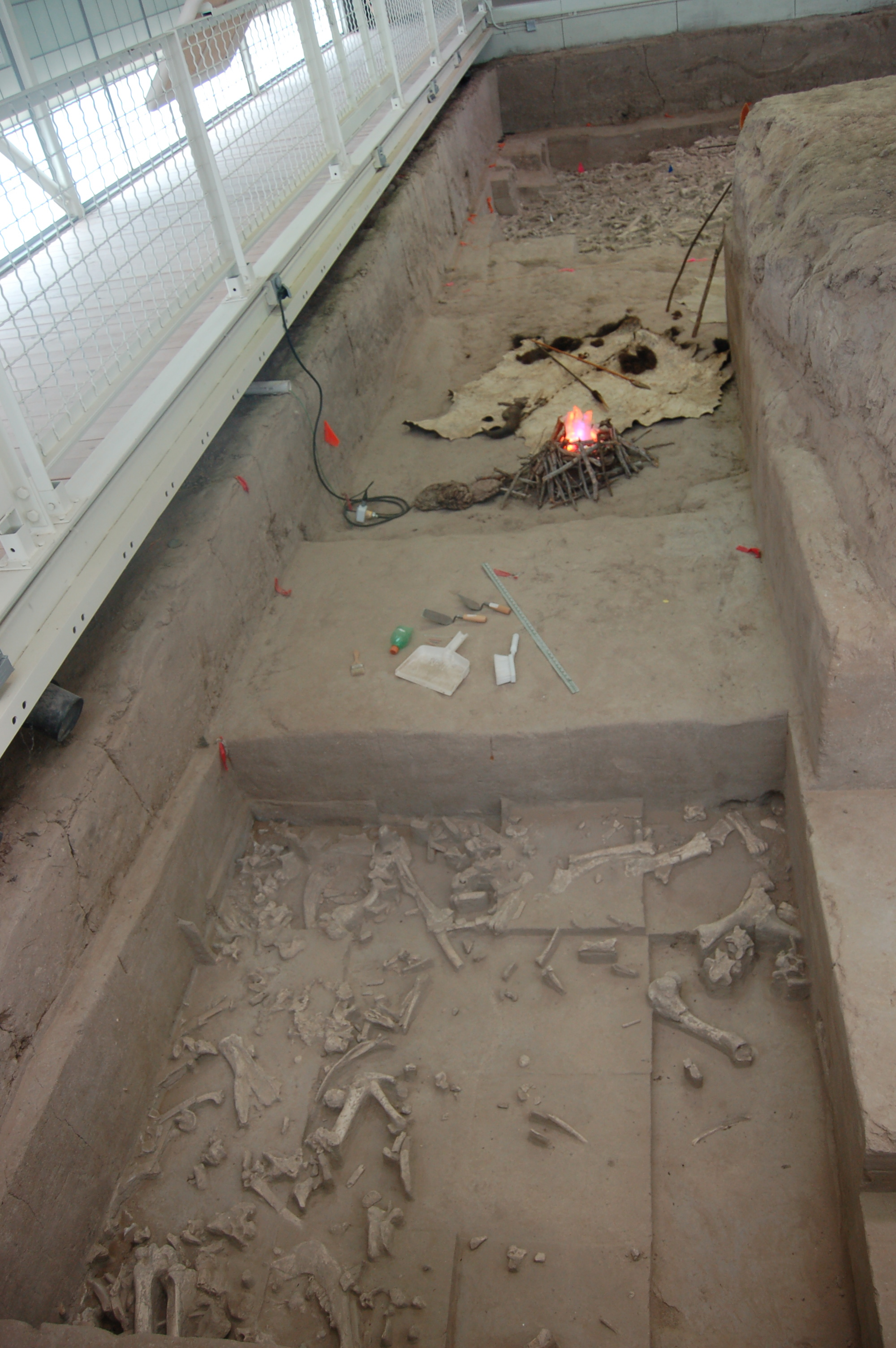 View of the Hudson-Meng dig